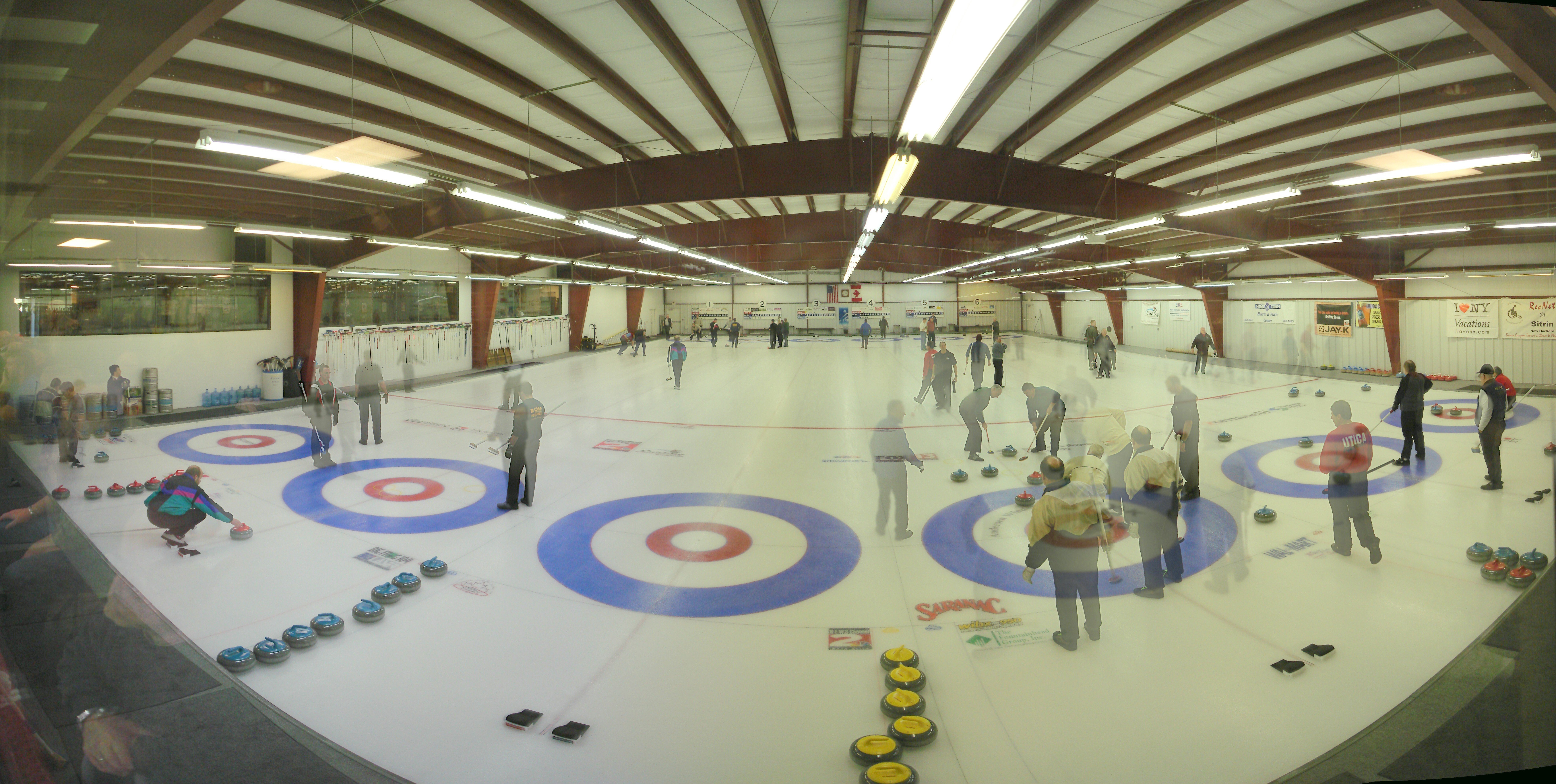 Curling at the Utica Curling Club. January, 2006. 36.7 Megapixel Stitched Photo by: rubyk